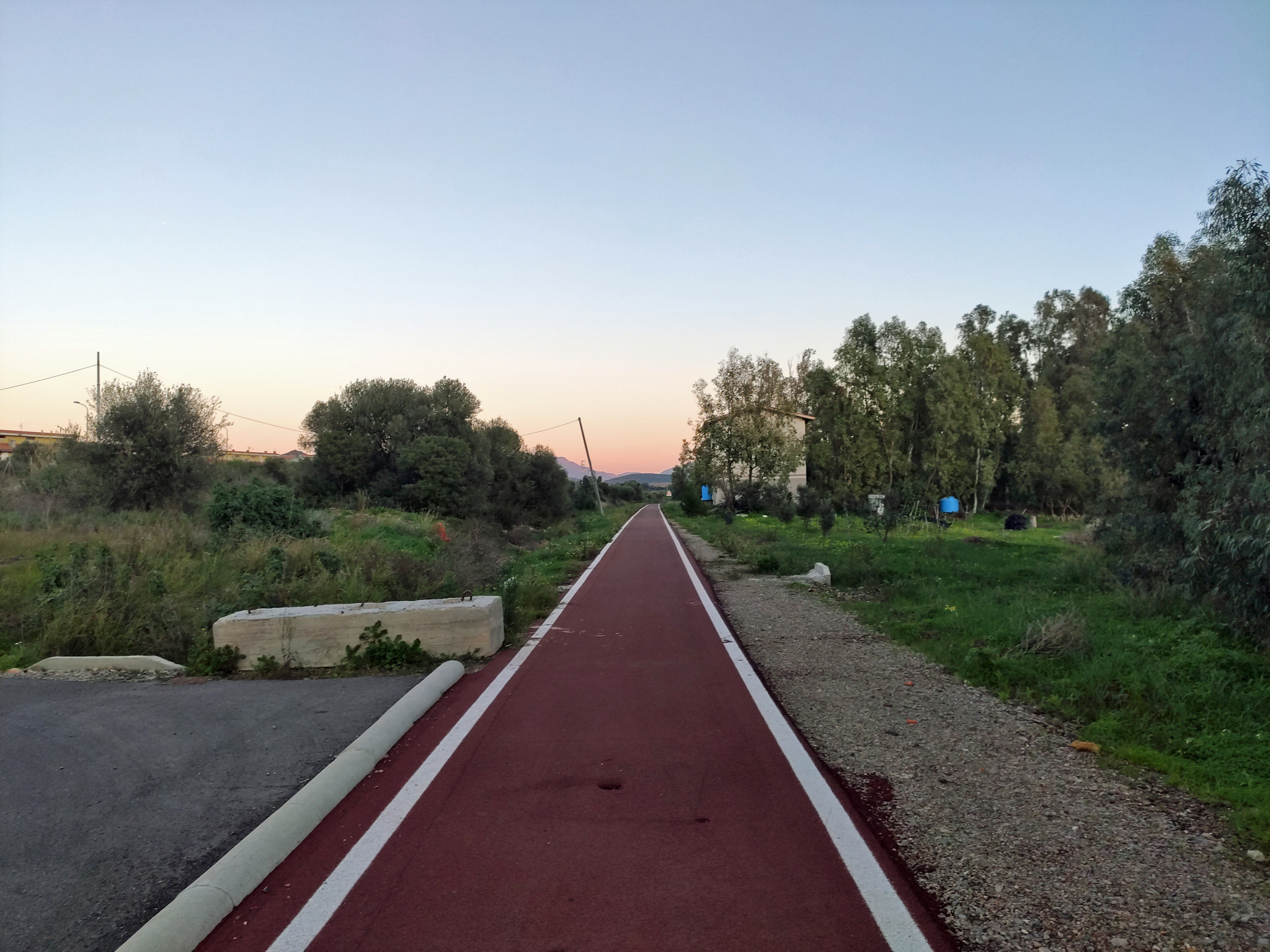 The area of the former railway halt of Tratalias (Sardinia, Italy), along the dismantled Siliqua-San Giovanni Suergiu-Calasetta line, close down in 1974